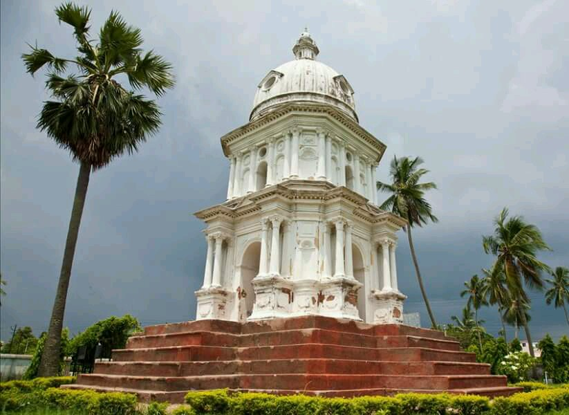 Susana Anna Maria Tomb, Chinsurah, Hooghly